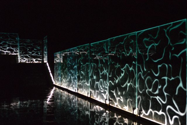 Glass Wall, Elizabeth Gill Lui